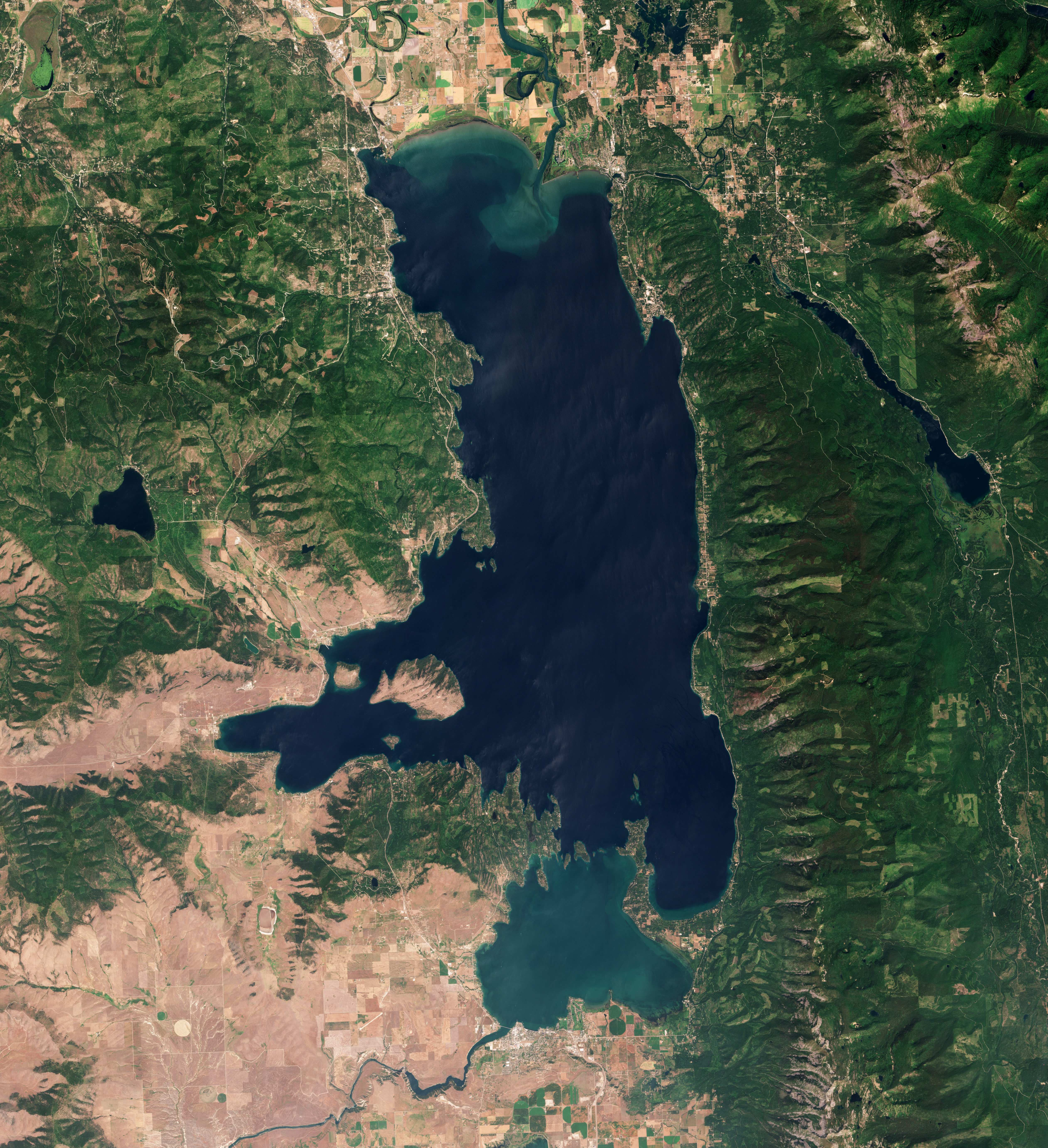 Date: 2018-08-02 Sensor: MSI on Sentinel-2B Resolution: 10m RGB Composites: True color, Band 4-3-2